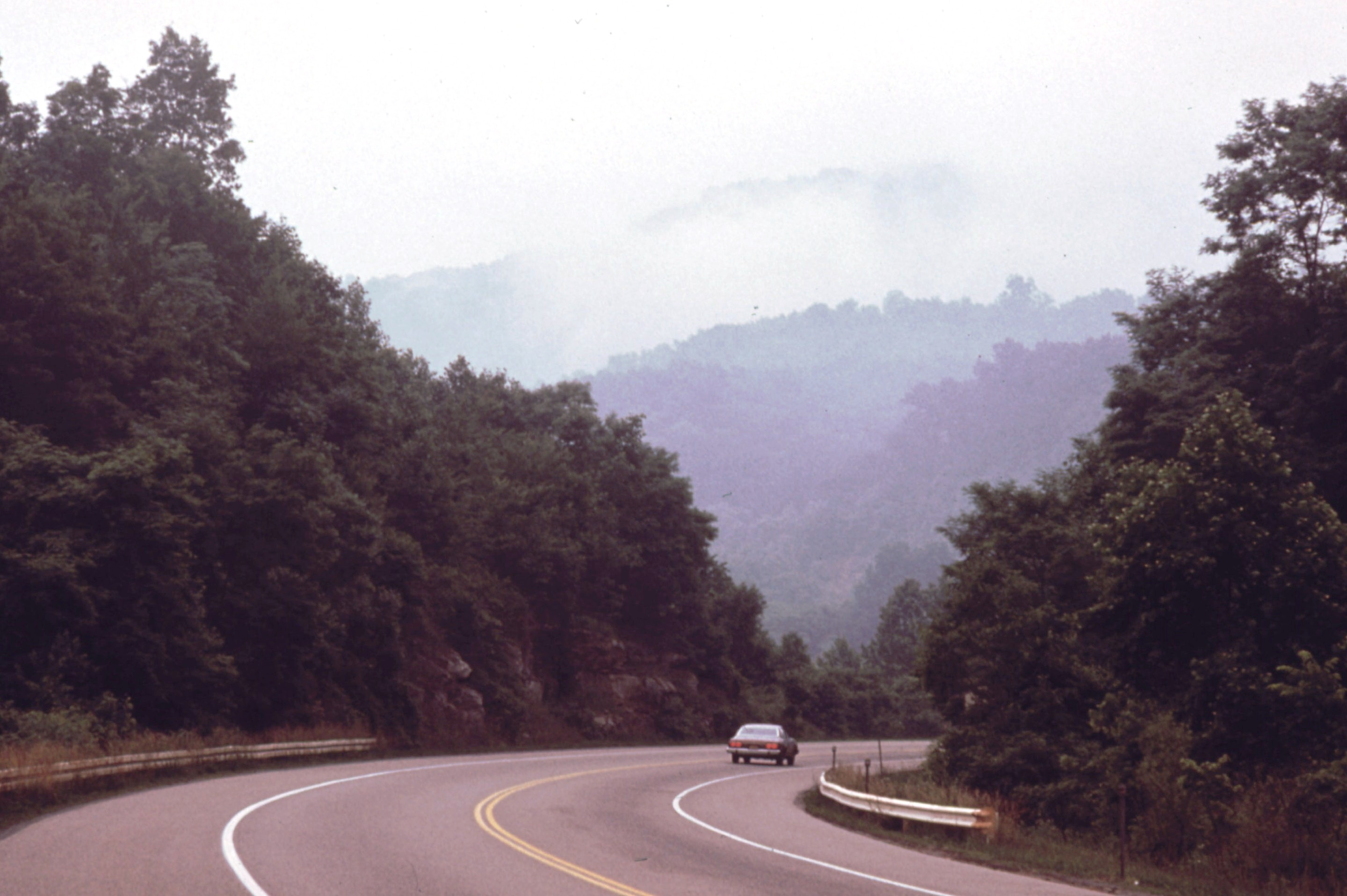 THE WEST VIRGINIA TURNPIKE NORTH OF BECKLEY WINDS THROUGH BEAUTIFUL WOODED COUNTRYSIDE. IT WAS THE ESTABLISHMENT OF A NETWORK OF LESSER ROADS THAT ALLOWED MINERS TO COMMUTE A GREATER DISTANCE TO WORK, AND WAS ONE OF THE FACTORS WHICH LEAD TO THE DECLINE OF THE COMPANY COAL TOWNS, 06/1974